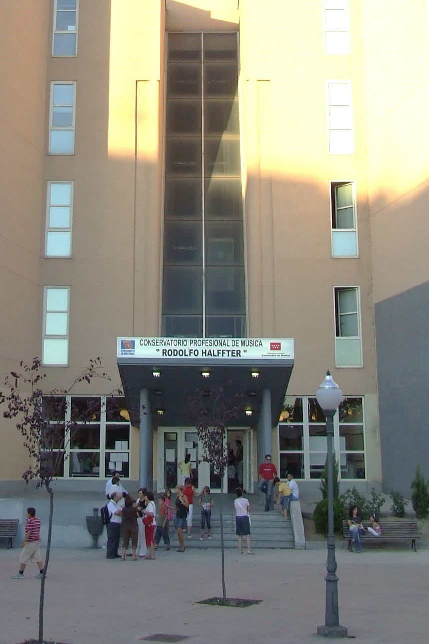 Móstoles is an autonomous community of the city Madrid in Spain.